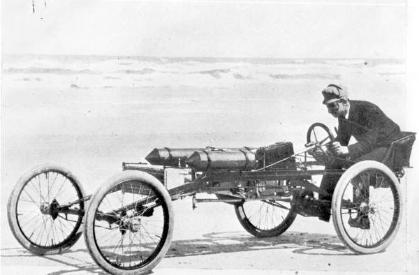 Ransom E. Olds in the Olds Pirate racing car at Ormond Beach, Florida in 1896 or 1897. Visitors at Ormond hotel discussed the idea of an auto race on the beach. Alexander Winton had already built and driven a race car called the Bullet while Ranson E. Olds was manufacturing small two seaters and had sold a sightseeing bus in Ormond. Winton agreed to bring his car down and Olds said that he would build a suitable challenger. The two cars met and had identical speeds of 57 mph. It was fine sport and neither claimed victory.